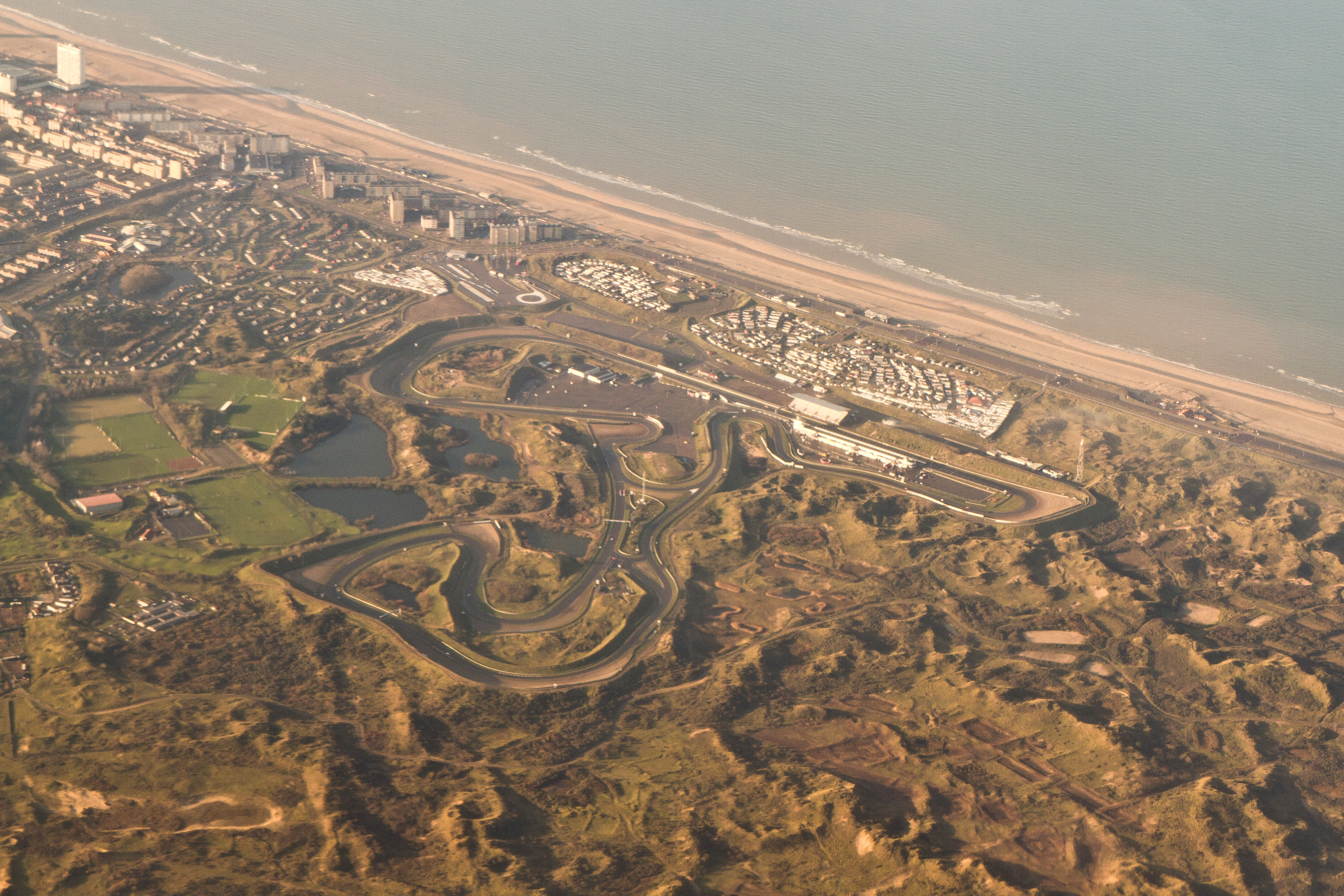 Aerial photo of Circuit Park Zandvoort